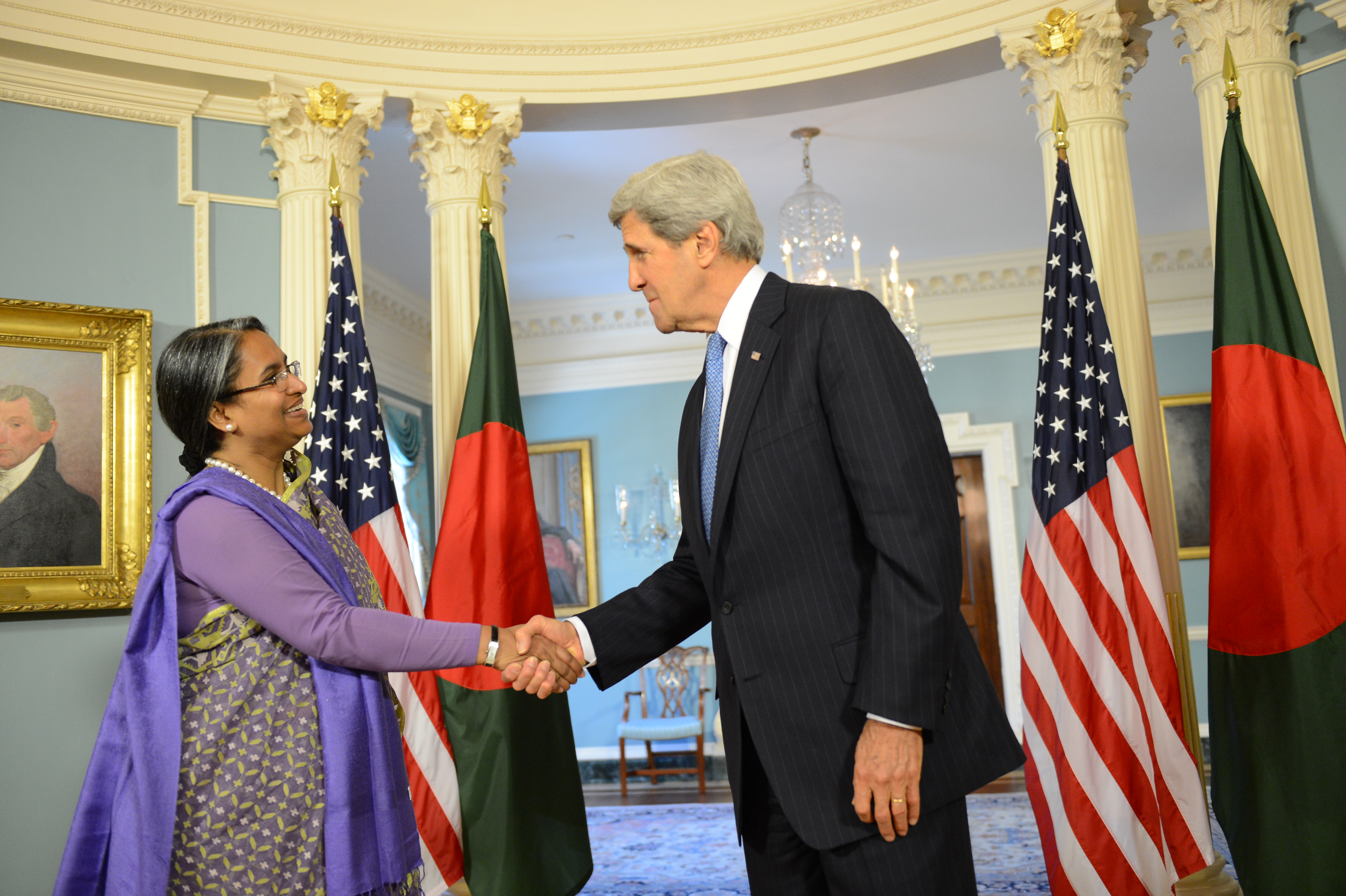 U.S. Secretary of State John Kerry meets with Bangladeshi Foreign Minister Dipu Moni at the U.S. Department of State in Washington, D.C., on May 17, 2013. [State Department photo/ Public Domain]